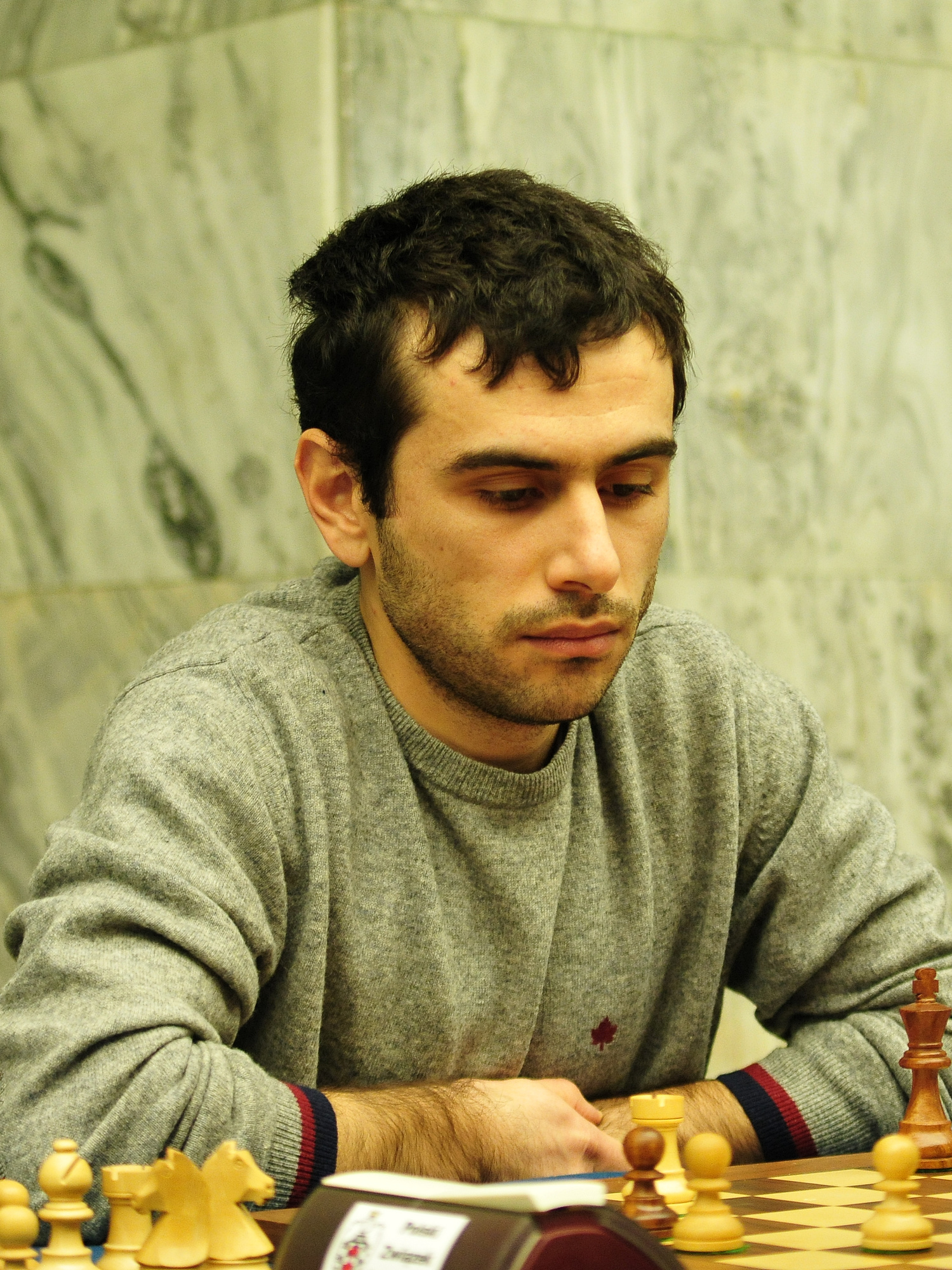 GM Gabriel Sargissian, European Rapid Chess Championship, Warsaw 2013.